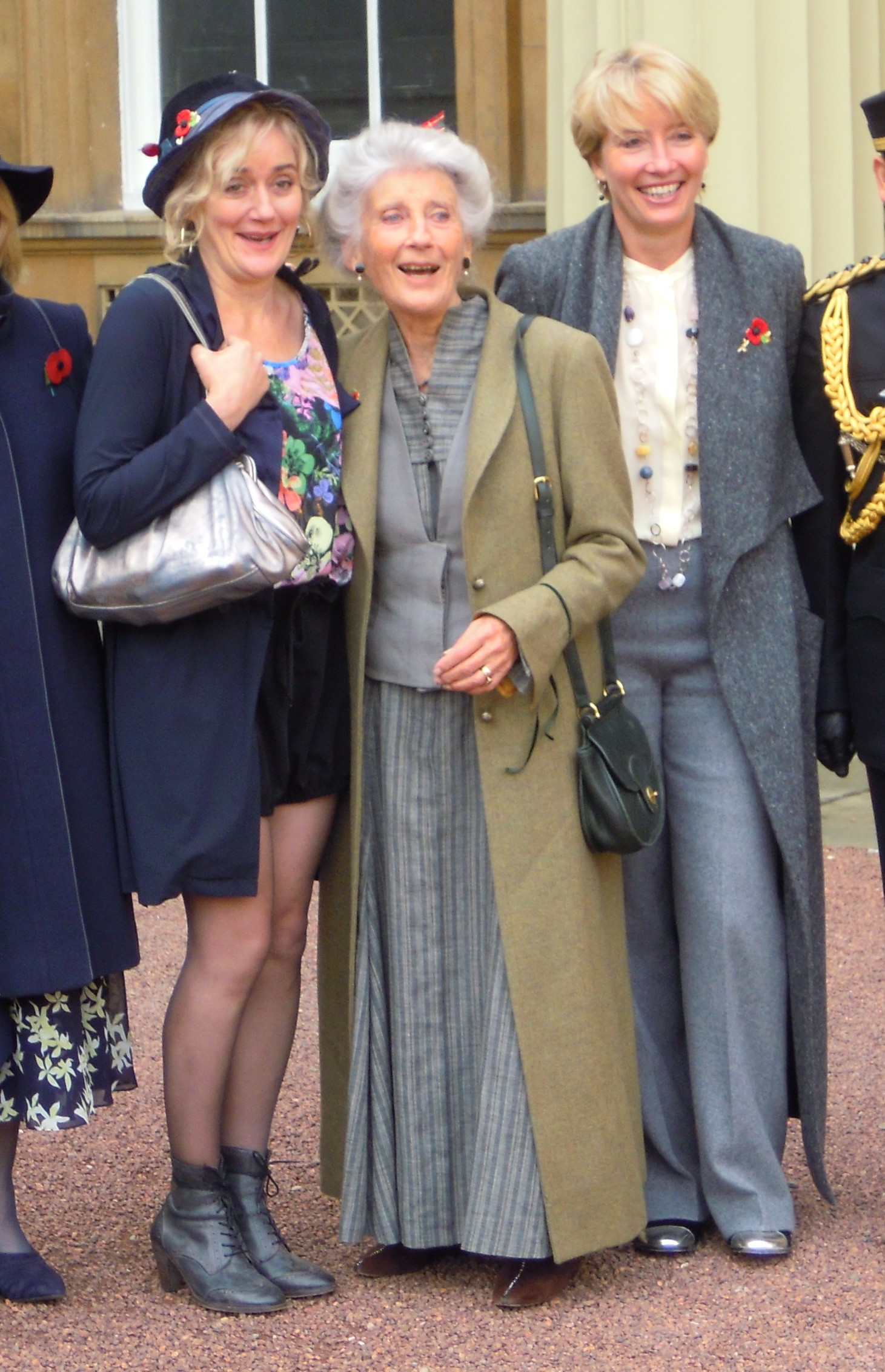 Actress Phyllida Law (centre) flanked by her daughters Sophie Thompson and Emma Thompson (Investiture at Buckingham Palace when Phyllida Law received the OBE).